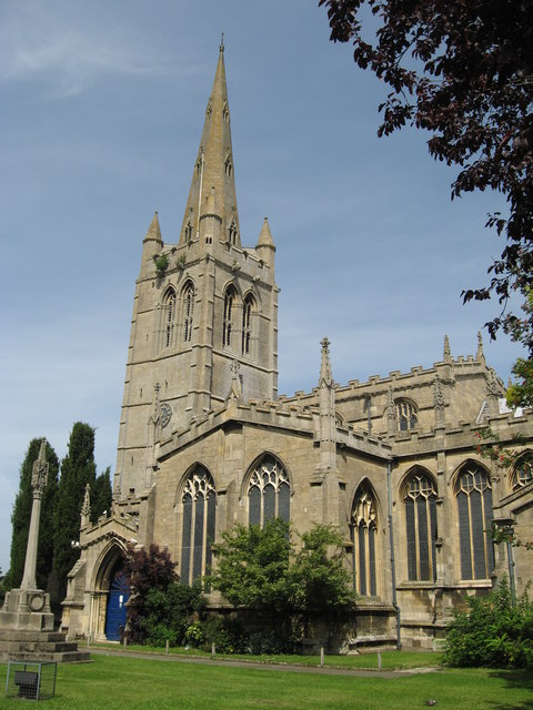 All Saints Church Oakham Rutland The church has a 14th century tower of five stages and a 'needle' spire which is 162 feet high. The oldest part of the church dates from around 1190 and other parts were added in the 13th, 14th, and 15th centuries, with a Victorian restoration in the 1850s.